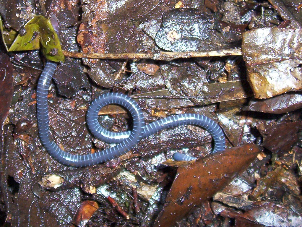 One specimen of Boulengerula taitanus, african caecilian. The head can't be seen because the animal is digging, to return underground.